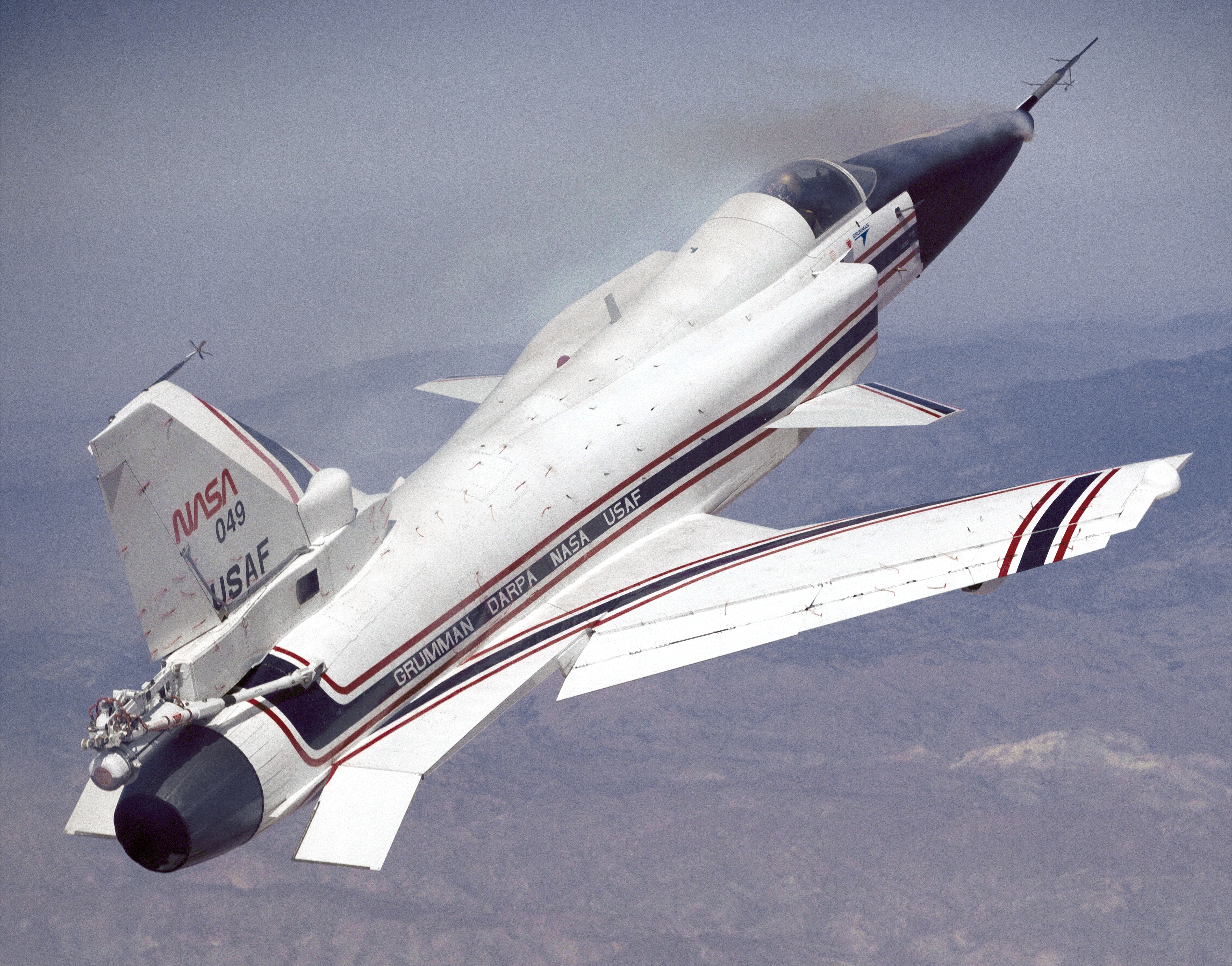 This photo shows the X-29 during a 1991 research flight. Smoke generators in the nose of the aircraft were used to help researchers see the behavior of the air flowing over the aircraft. The smoke here is demonstrating forebody vortex flow. This mission was flown September 10, 1991, by NASA research pilot Rogers Smith.